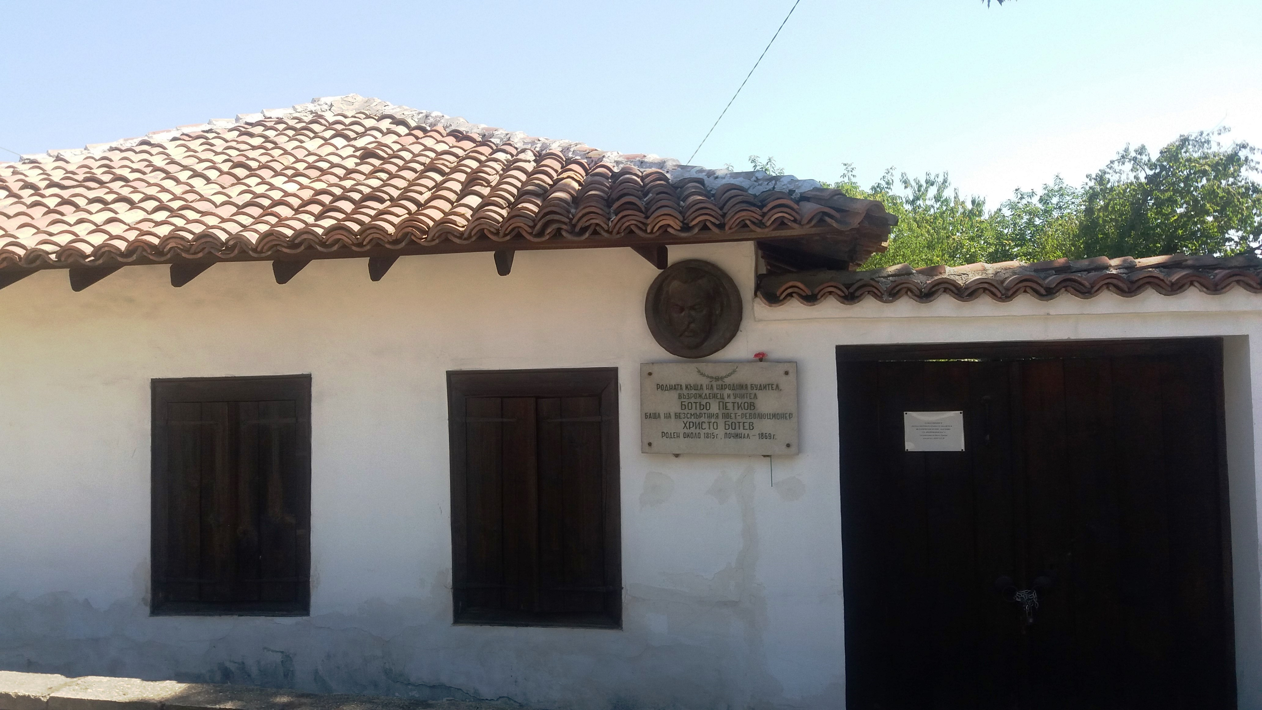 The birthhouse of bulgarian teacher Botyo Petkov